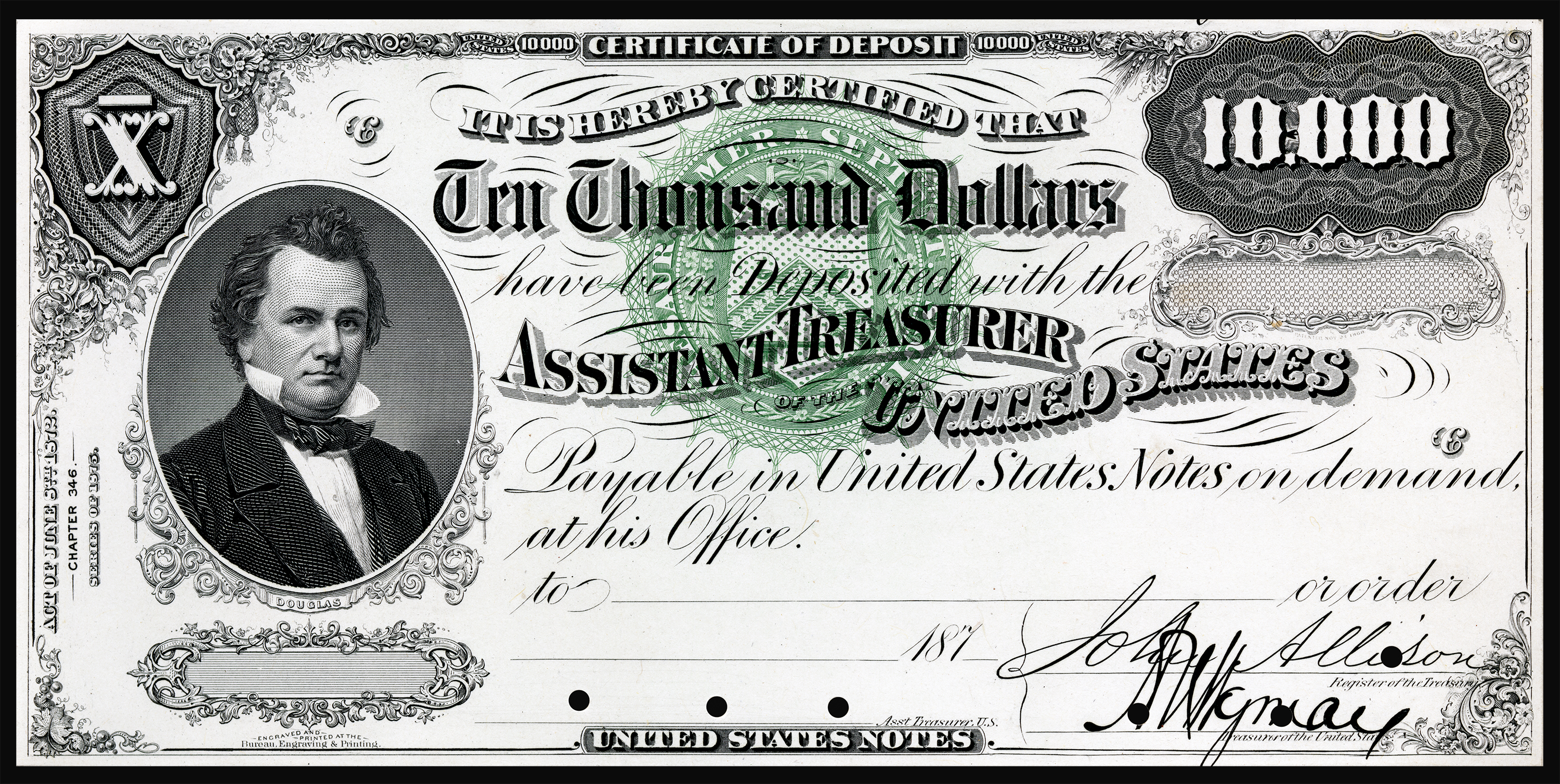 US-$10000-Certificate of Deposit-1875 (Proof)